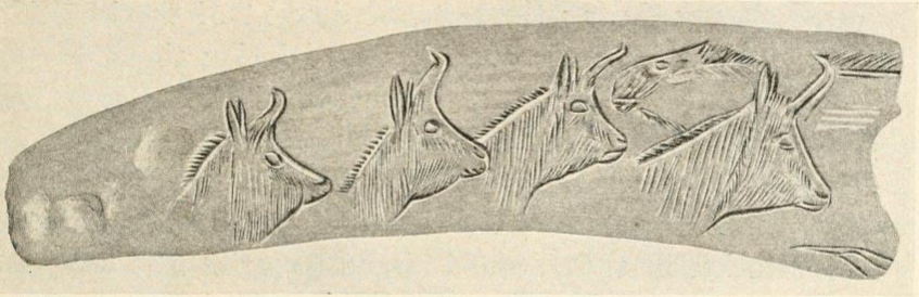 Chamois herd engraved on reindeer antler from Gourdan grotto, Haute Garonne.